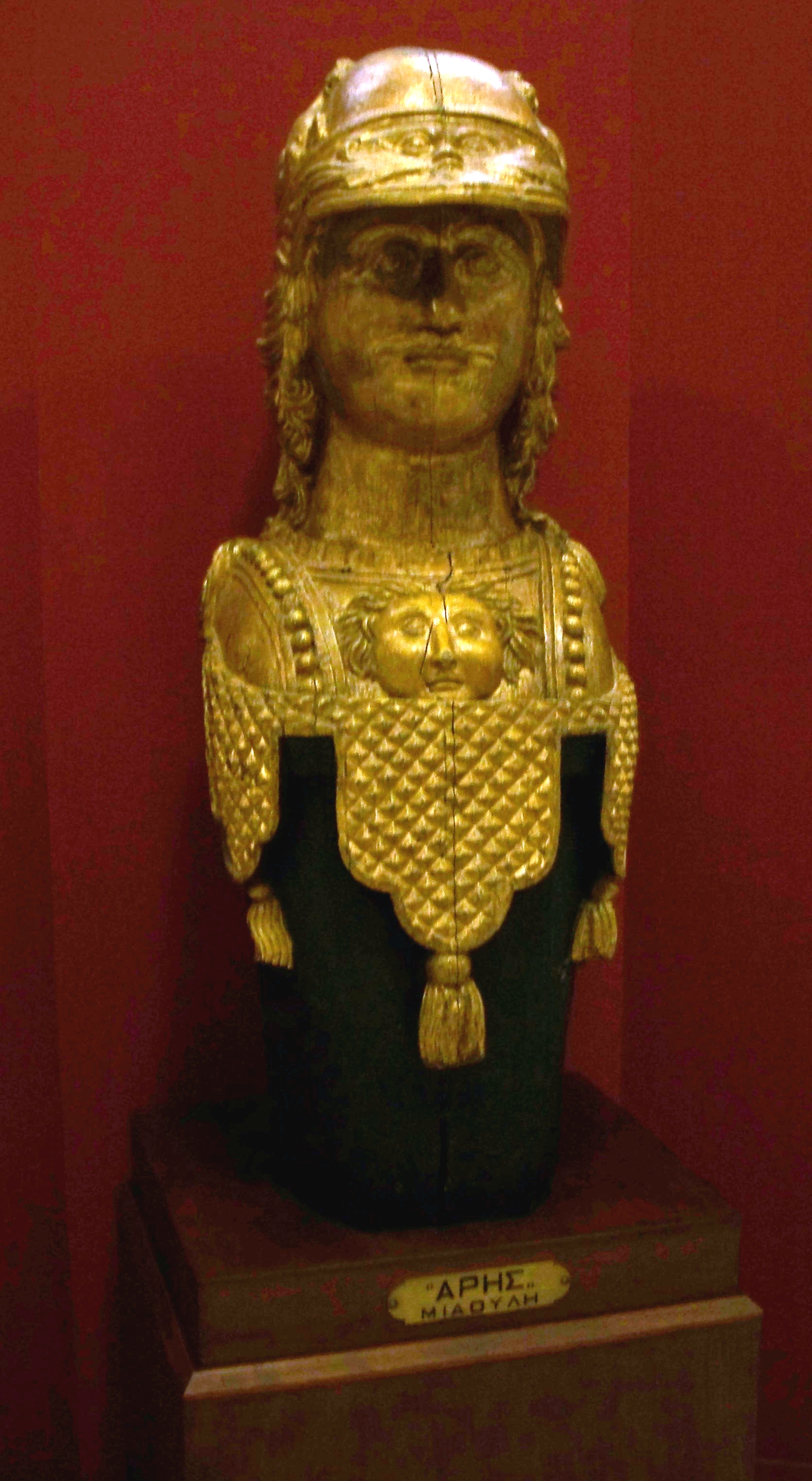 The figurehead of the ship "Aris" of greek revolutionary admiral Andreas Miaoulis (Ανδρέας Μιαούλης). National Historical Museum, Athens, Greece.